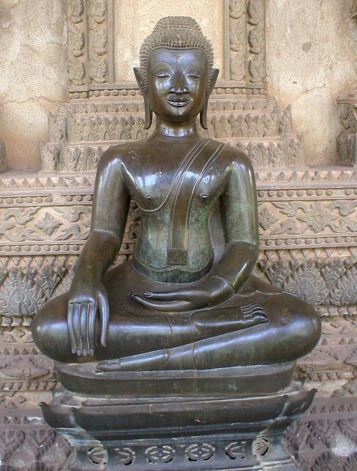 "Buddha Subduing Mara", the Bodhisattva is seated in the yoga position, left hand in his lap, palm up. The right hand rests on the knee and points to the ground. This posture is (in Thailand and Laos) better known as 'calling the Earth to witness'. Museum of Ho Phra Keo (Vientiane, Laos). Bouddha statue, bronze XVIII th century (outside gallery). Myself-made picture. January 2006 Siren-Com 04:13, 25 January 2006 (UTC)